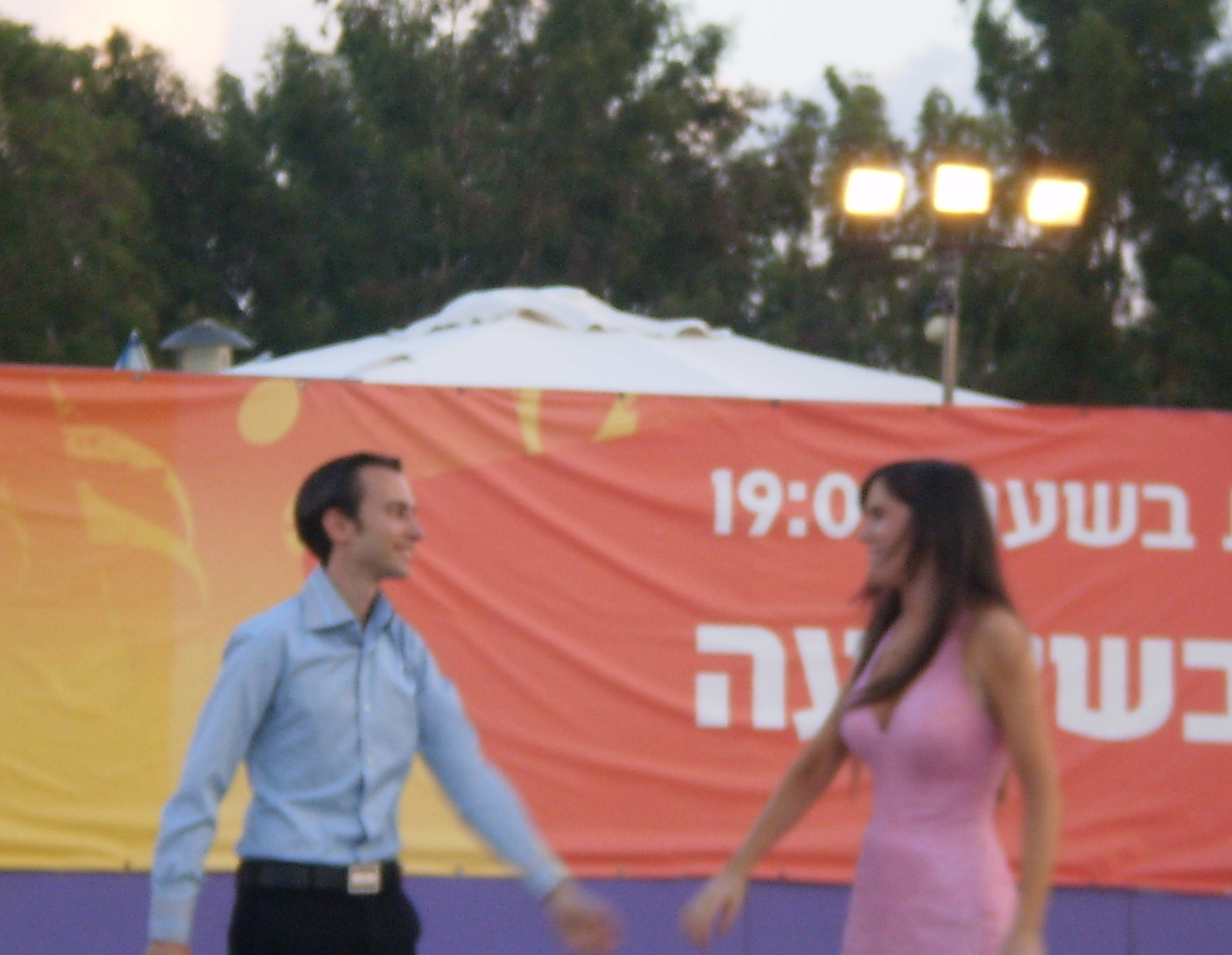 Pianists Victor Stanislavsky and Dorel Golan